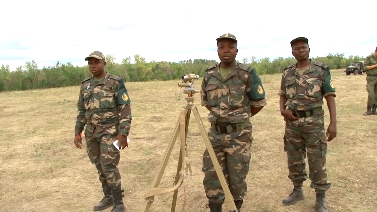 Angolan Army soldiers instruct their fellow mortarmen on coordinates as a part of their training in Russia. From left to right, the ranks of the men are Second Lieutenant, First Lieutenant, and Captain.